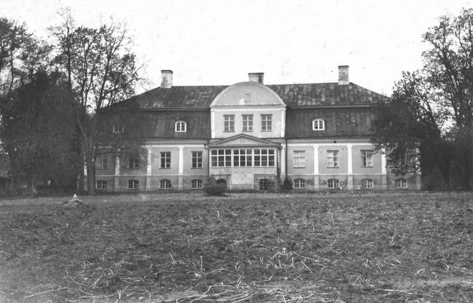 Saare Manor (Sarenhof) in Saare Parish, Estonia.